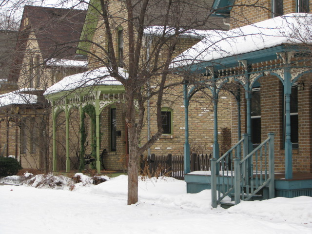 Minneapolis's Milwaukee Avenue today.